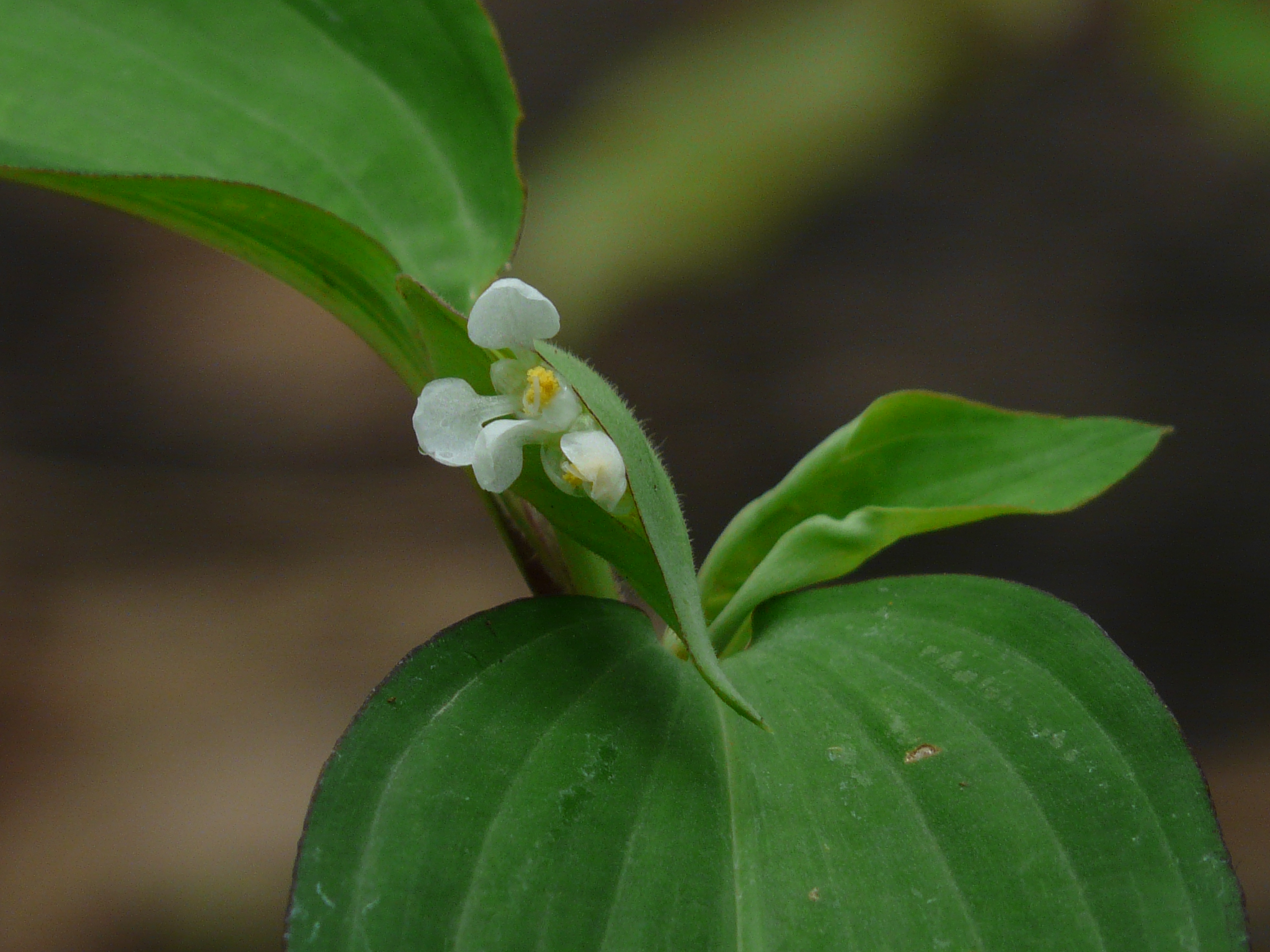 Commelinaceae (dayflower, or spiderwort family) » Commelina suffruticosa kom-uh-LEE-nuh -- named for Dutch botanists: Johan and his nephew Caspar Commelin suf-roo-tee-KO-sa -- meaning, somewhat shrubby commonly known as: shrubby dayflower Native to: s China, Nepal, Bangladesh, India, Indonesia, Thailand, Malaysia Reference: eFlora